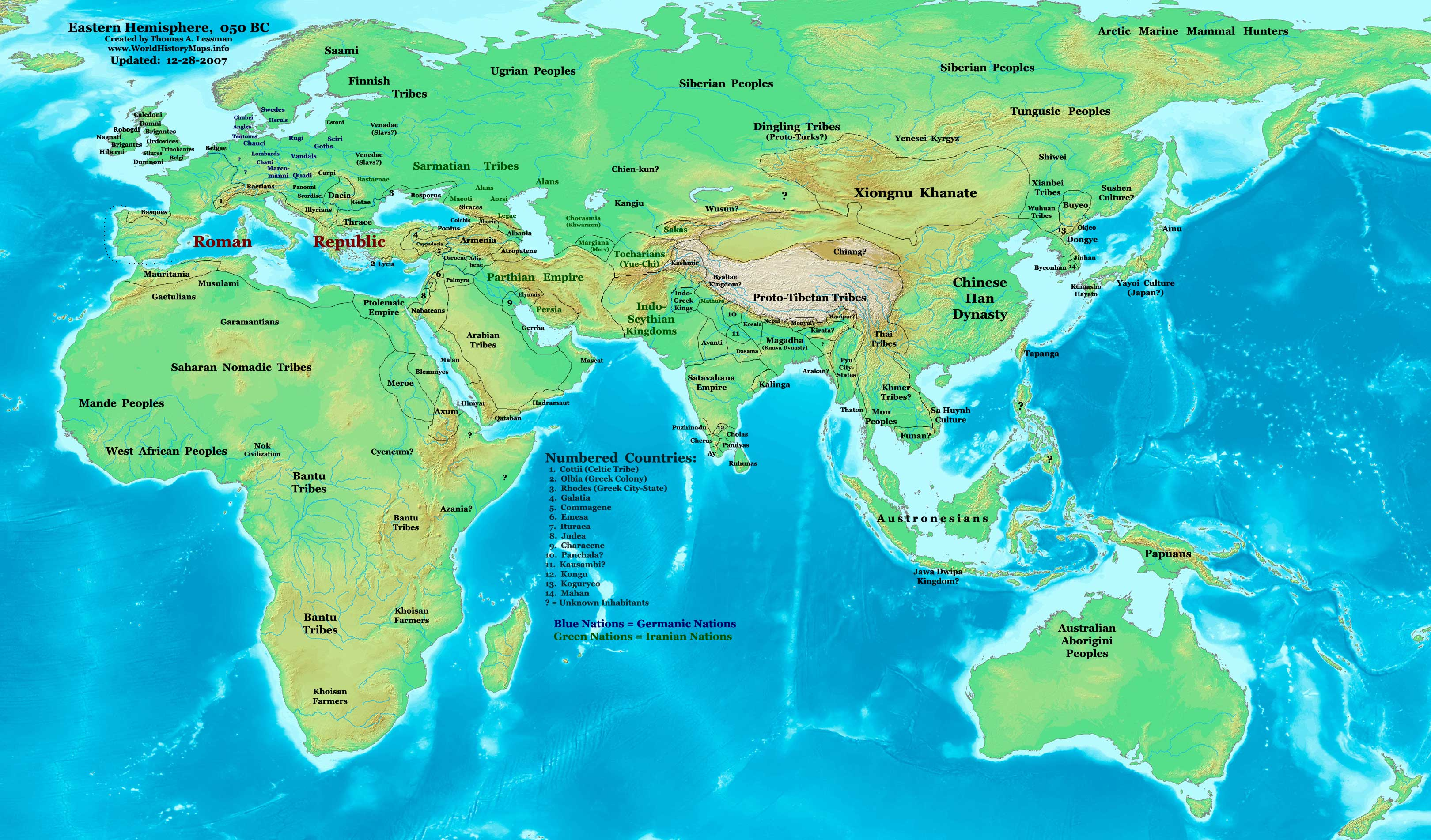 Eastern Hemisphere in 050 BC.